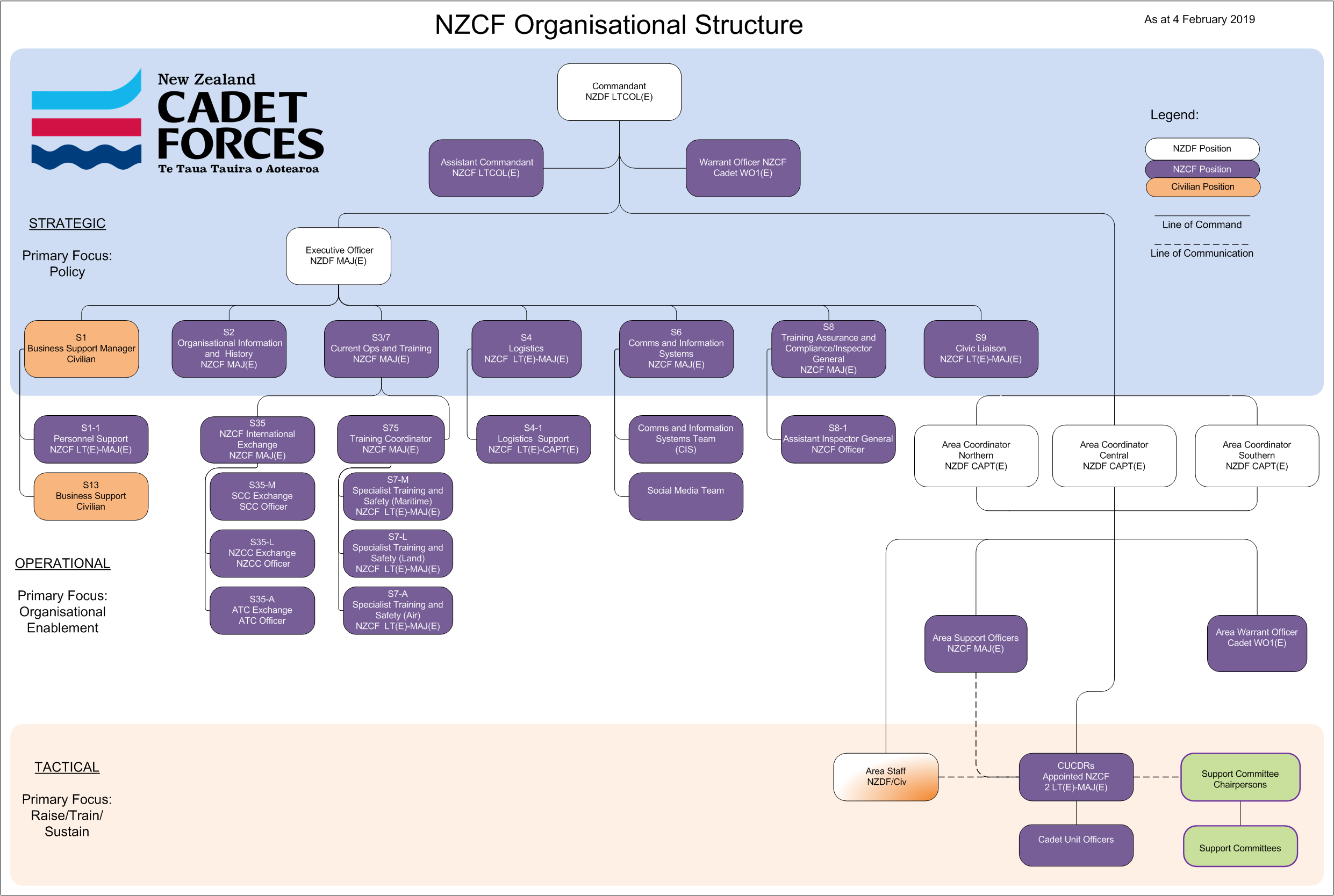 NZCF Structure as at 4 February 2019.